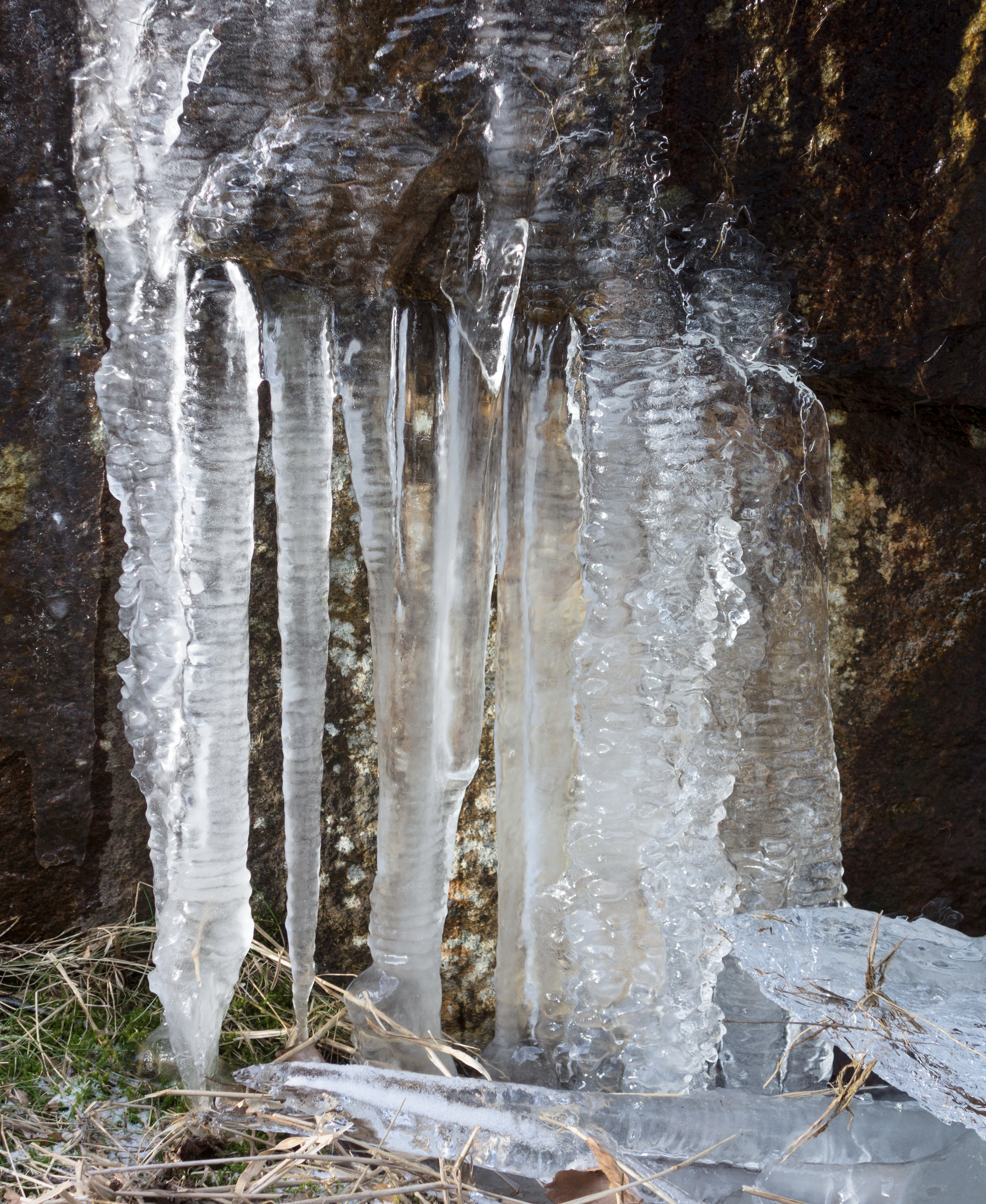 Icicles and ice formations on a granite cliff in Gåseberg, Lysekil Municipality, Sweden. The "growth rings" or banding on the icicles occurs as the water in the soil above the cliff thaws during the day and freezes during the night.